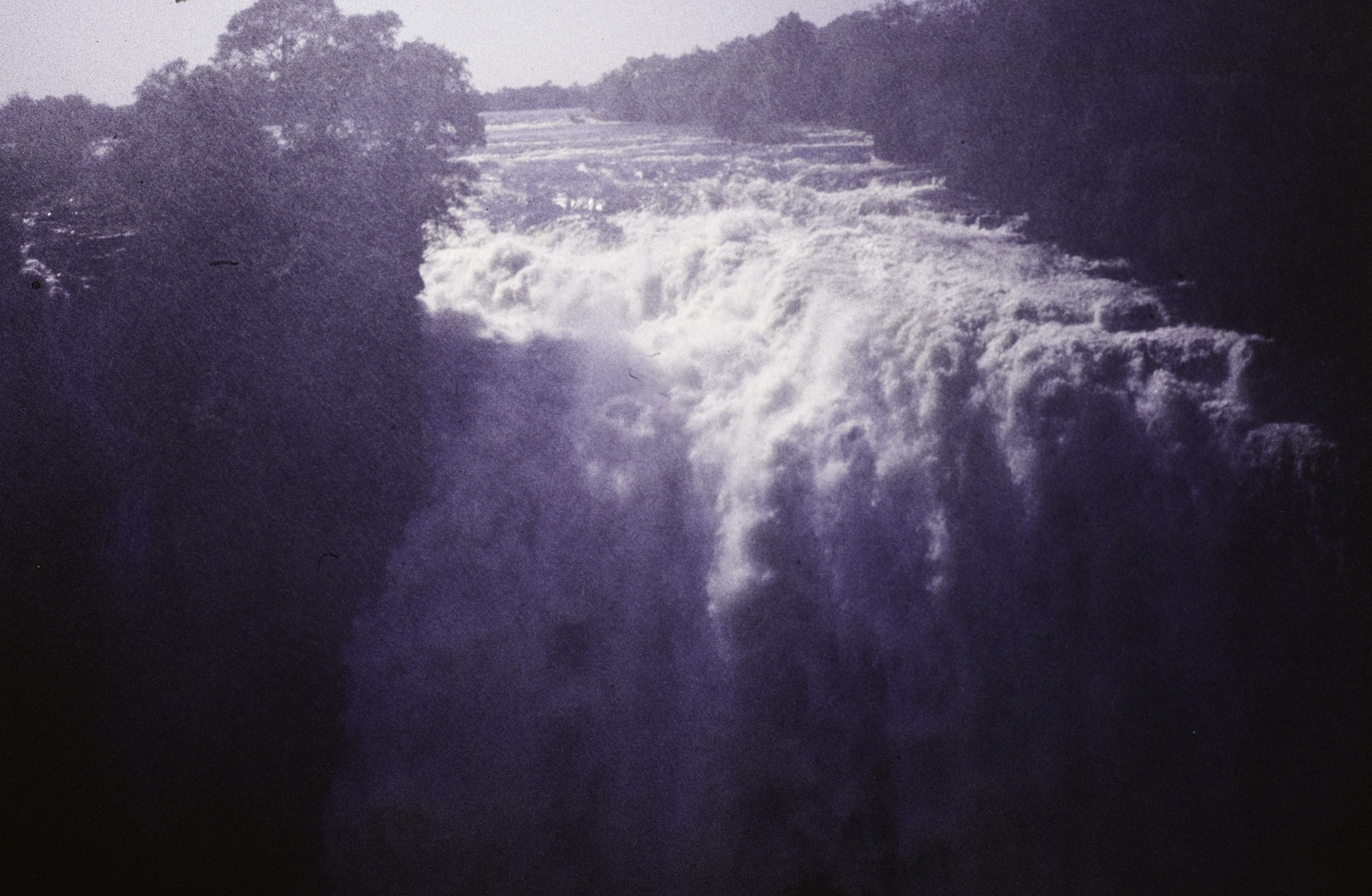 Victoria Falls waterfall.